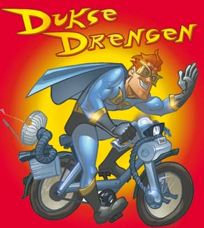 "DukseDrengen" on his Velo Solex.